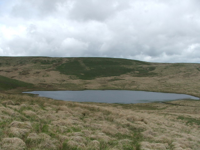 Llyn Gwngu Llyn Gwngu - un o'r llefydd mwyaf anghysbell yng Ngheredigion. Llyn Gwngu - one of the most remote places in Ceredigion.